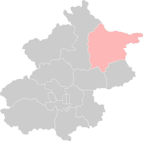 Location map of Miyun County